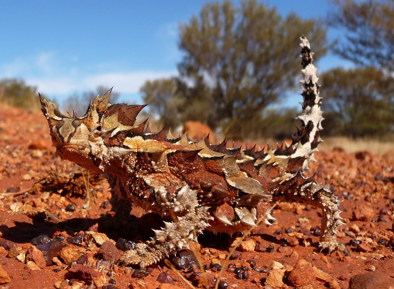 Thorny Devil (Moloch horridus), Northern Territory, Australia